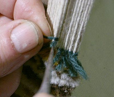 carpet knotting